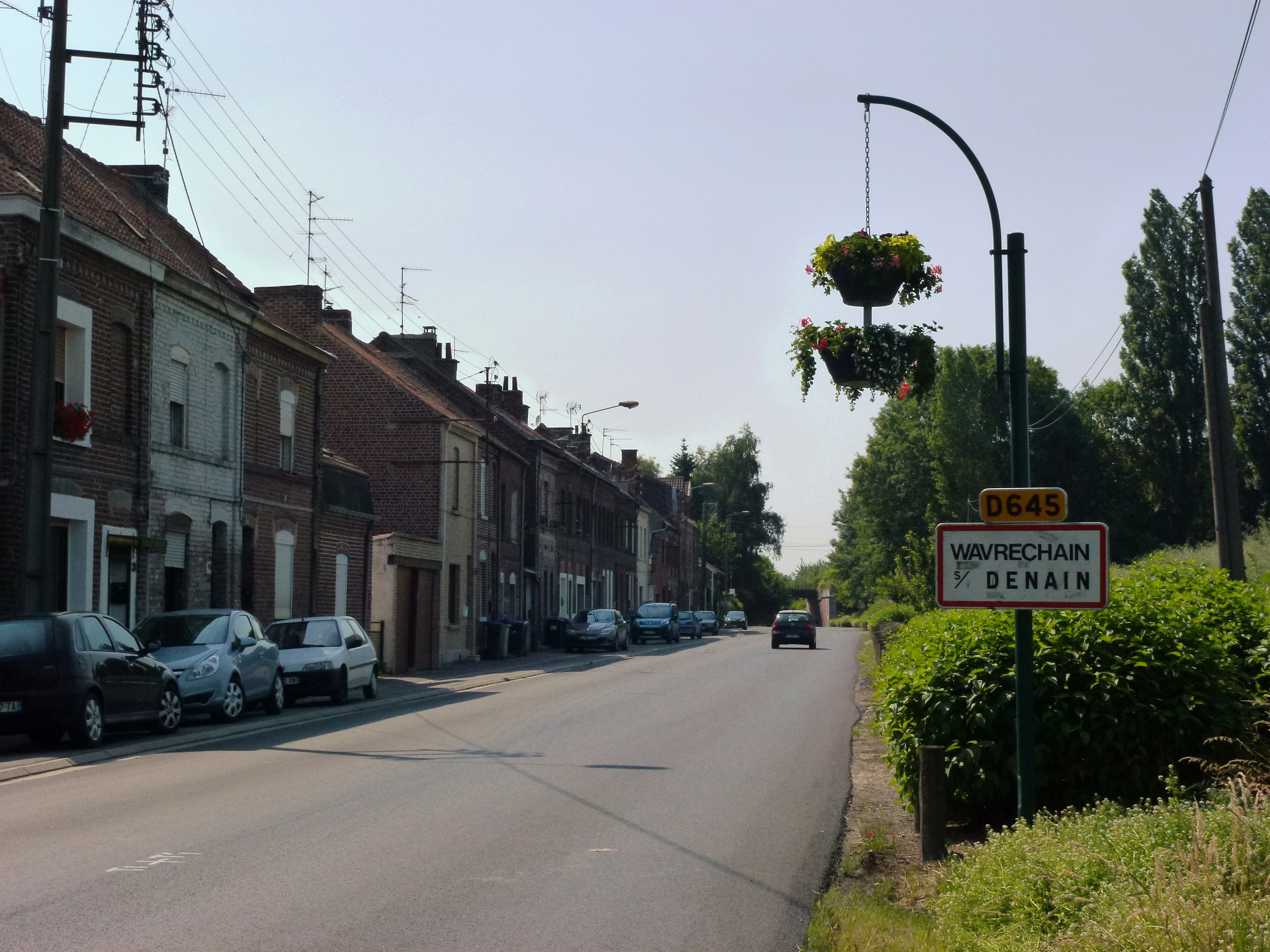 Wavrechain-sous-Denain (Nord, Fr) city limit sign